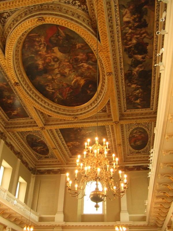 Rubens-painted ceiling of the Banqueting House